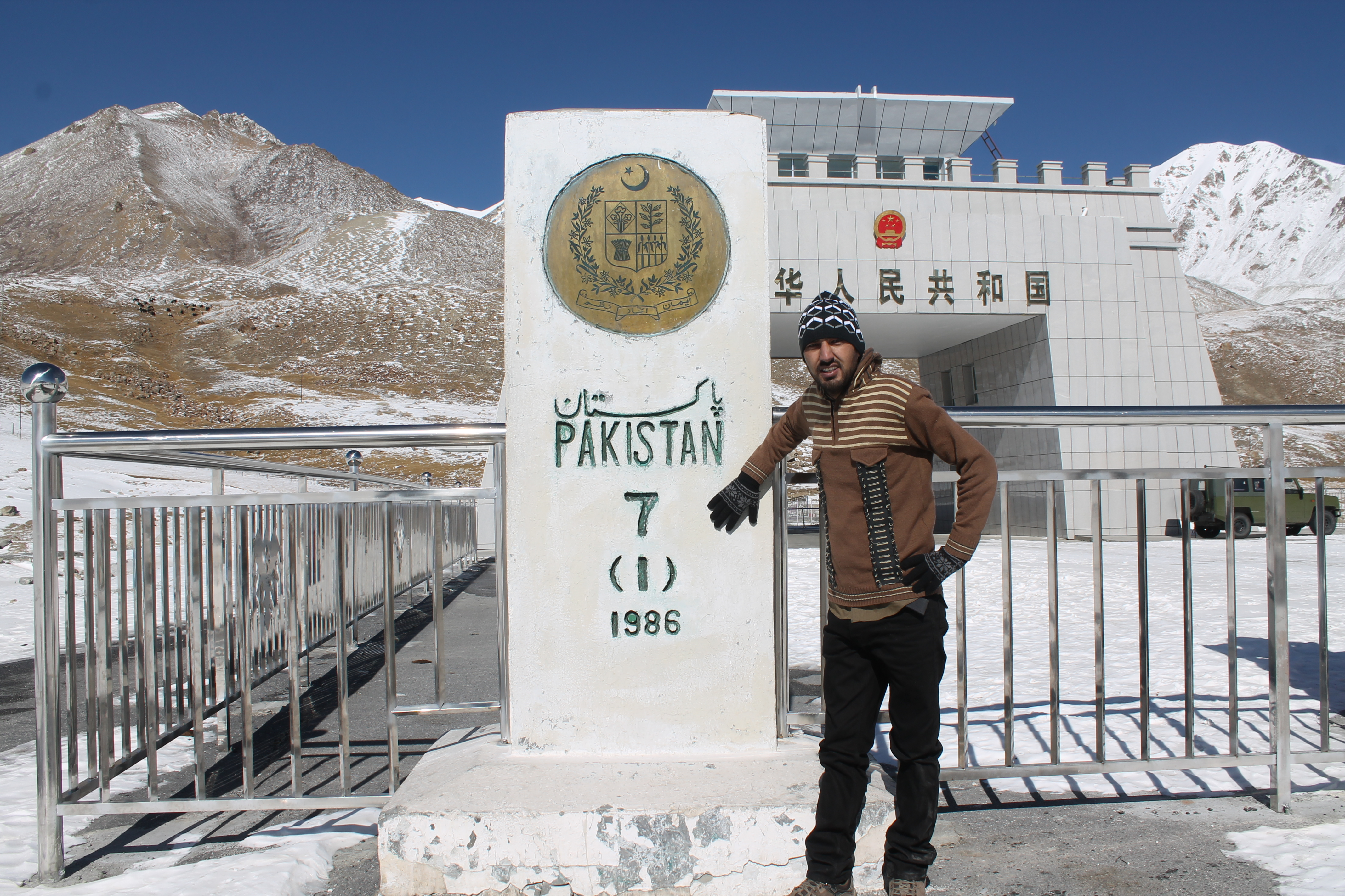 This is a photo of a monument in Pakistan identified as the GB-1